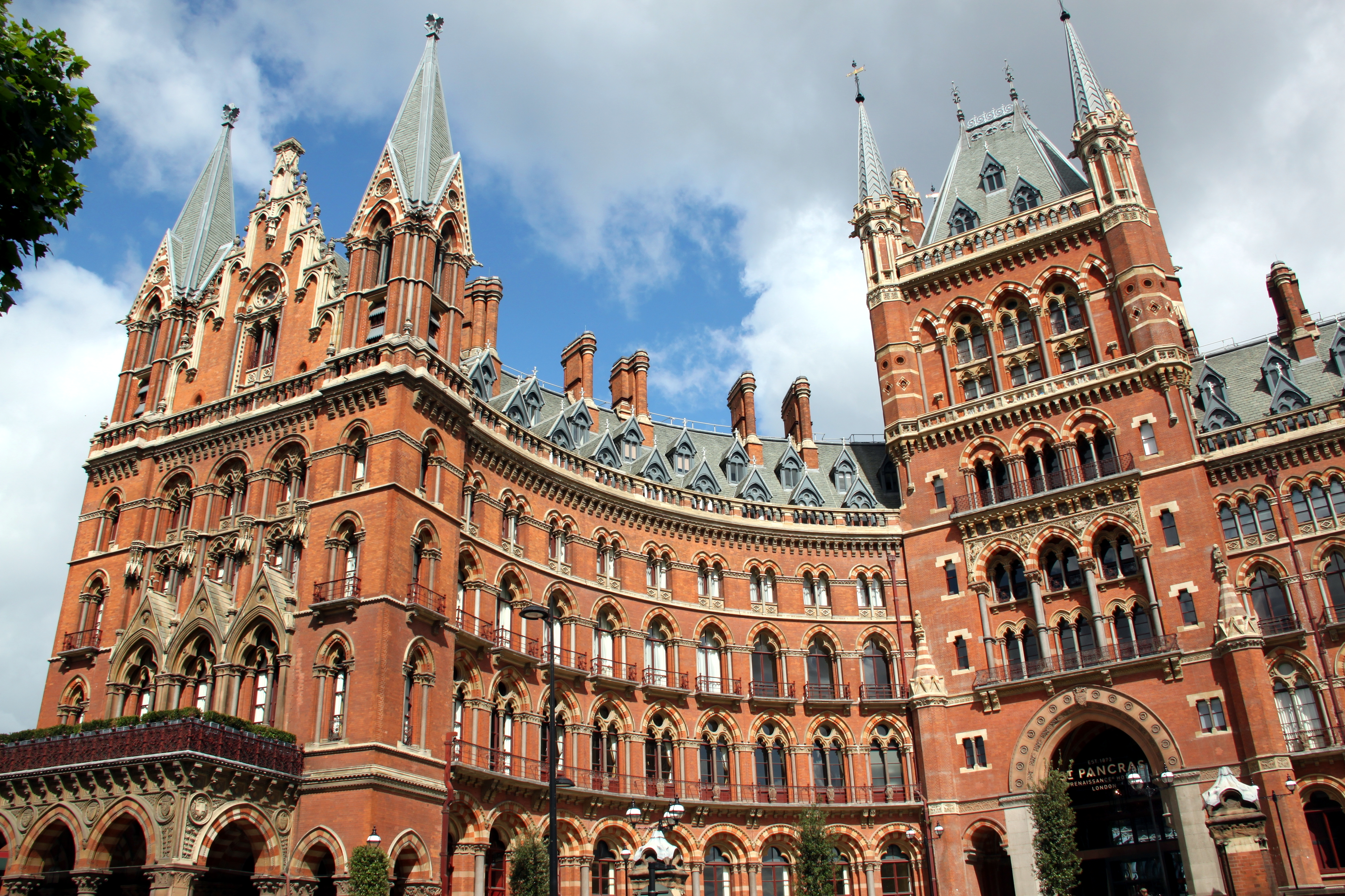 St Pancras Renaissance London Hotel, as seen from Euston Road.